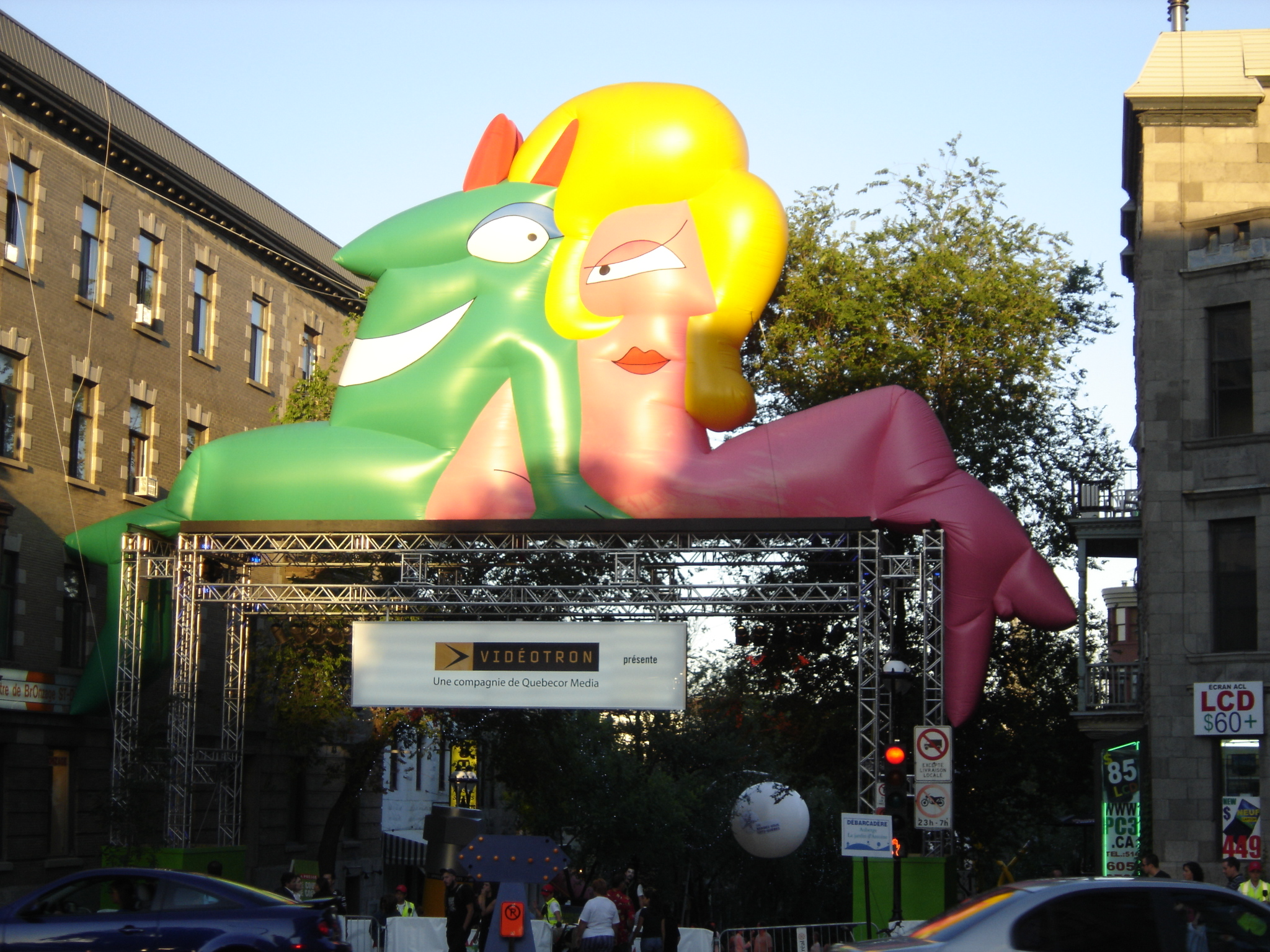 26th Just For Laughs Festival